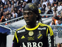 Martin Kayongo-Mutumba in July 2013.